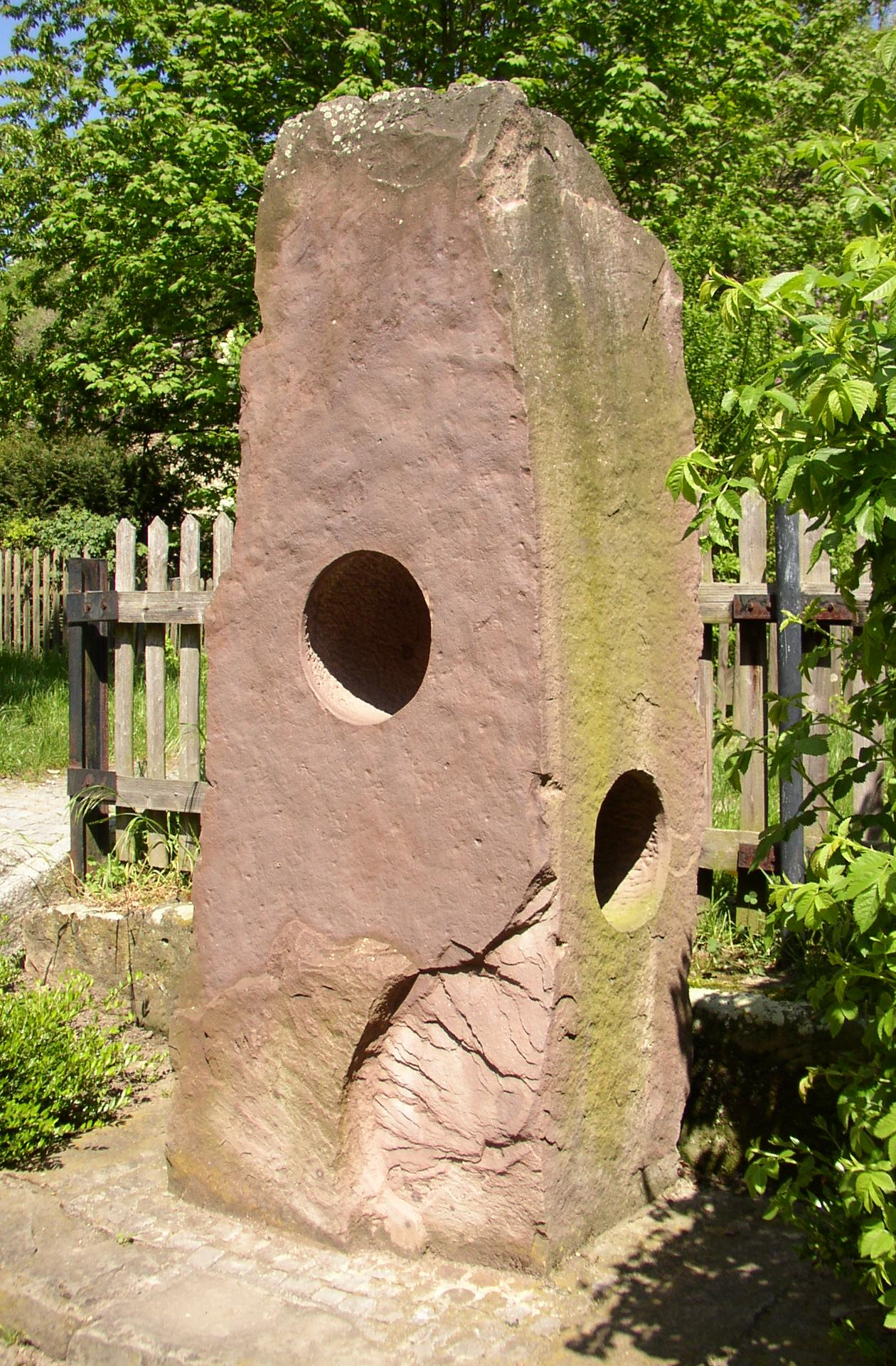 Stone sculpture in Hornburg in Lower Saxony, Germany